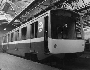 The first generation of Montreal's metro cars as designed by Jacques Guillon Designers